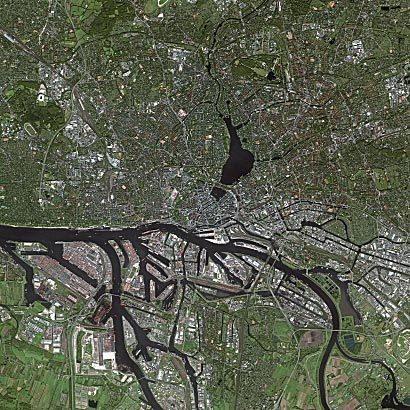 Hamburg by SPOT Satellite